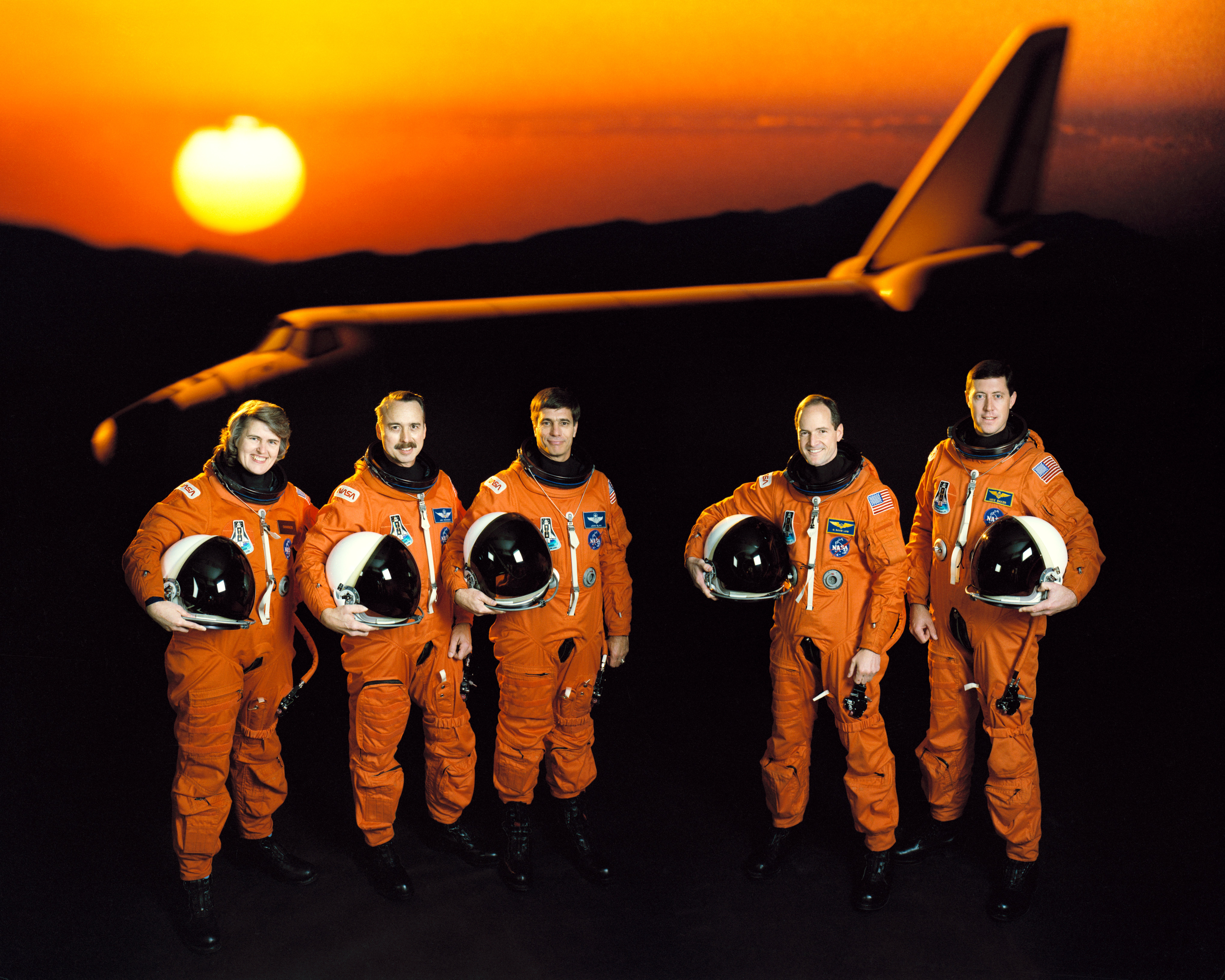 STS-43 Official crew portrait shows astronauts standing in front of a landed space shuttle orbiter at sunset. Crewmembers, wearing launch and entry suits (LESs) and holding launch and entry helmets (LEHs), are (left to right) Mission Specialist (MS) Shannon W. Lucid, MS James C. Adamson, Commander John E. Blaha, MS G. David Low, and Pilot Michael A. Baker. The portrait was created using a double exposure.